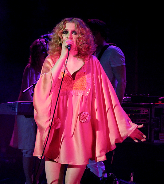 Goldfrapp at Royal Festival Hall, Friday 18th April 2008